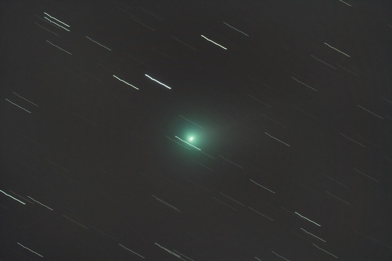 It's shaping up to be a good season for comets - there are now four of them rising in the East before dawn, promising to put on a decent show in the coming months. After a bit of visual comet-spotting I had a pop at imaging Comet Lovejoy (C/2013 R1), here are a couple of versions of a half-hour exposure guided on the comet. Comet Lovejoy (C/2013 R1), 13th November 2013. Subs: 1 light @ 1800s, no darks or bias frames, ISO800. 1000D on the 6" R-C, guided with PHD.